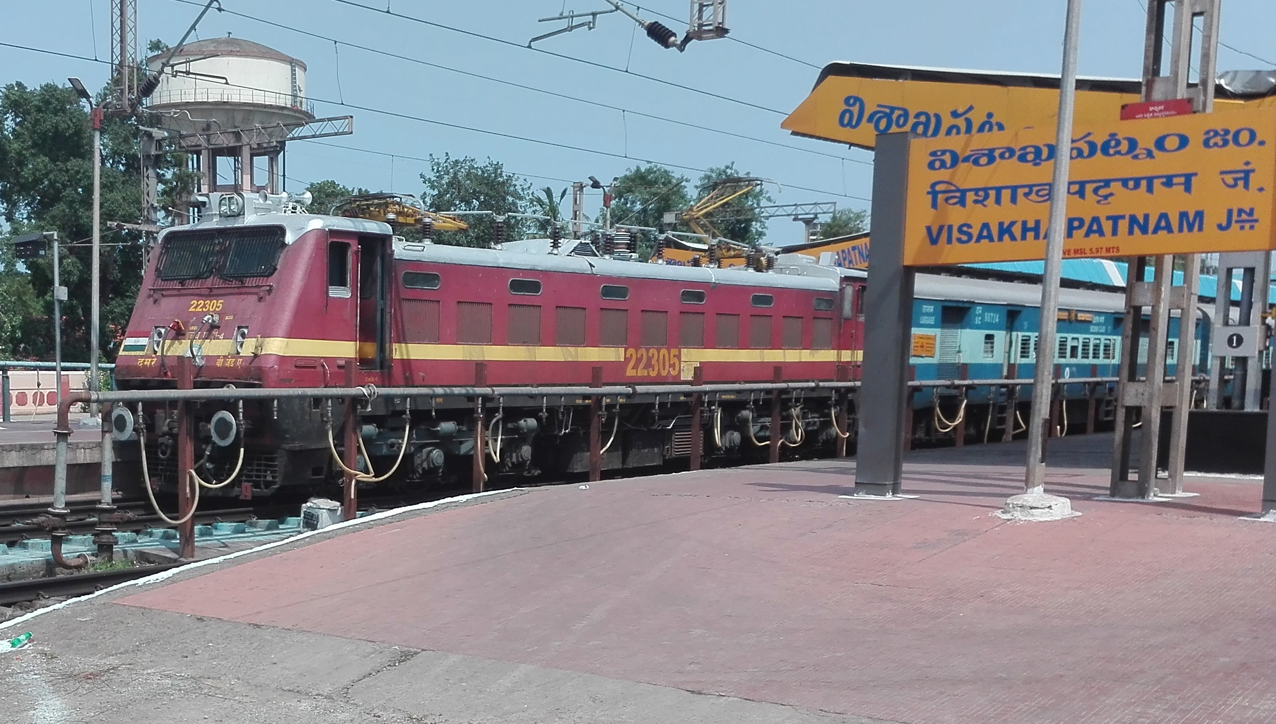 Tirumala Express with a WAP4 loco is ready to leave from Visakhapatnam Junction